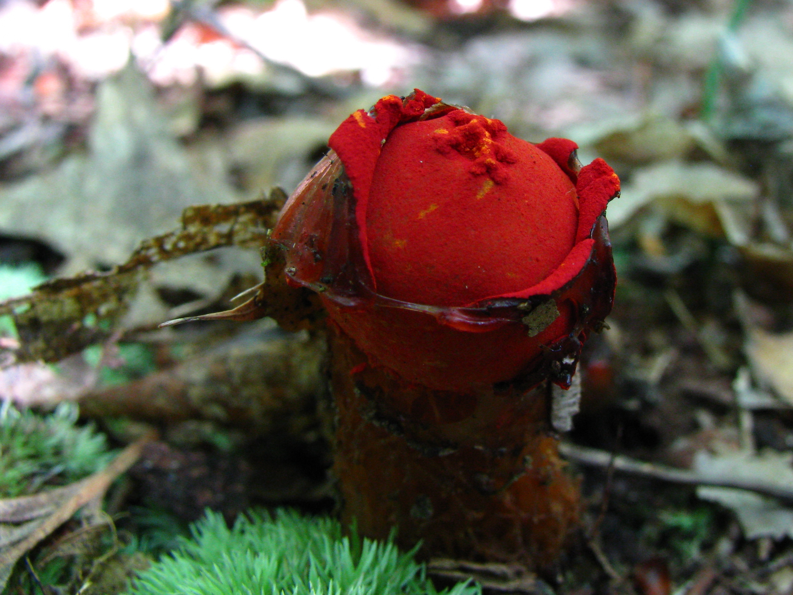 The mushroom Calostoma cinnabarina, commonly known as "prettylips"